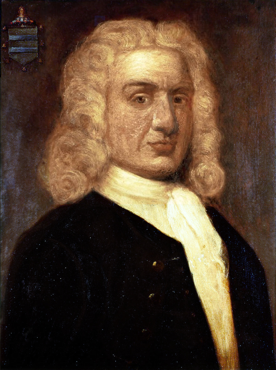 William Kidd, privateer, pirate. 18th century portrait by Sir James Thornhill.